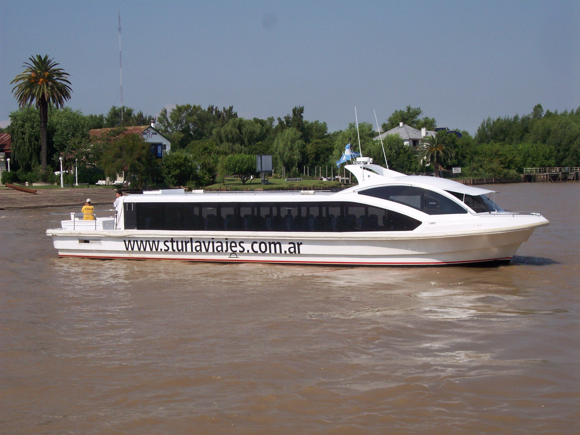 Photo of a water bus